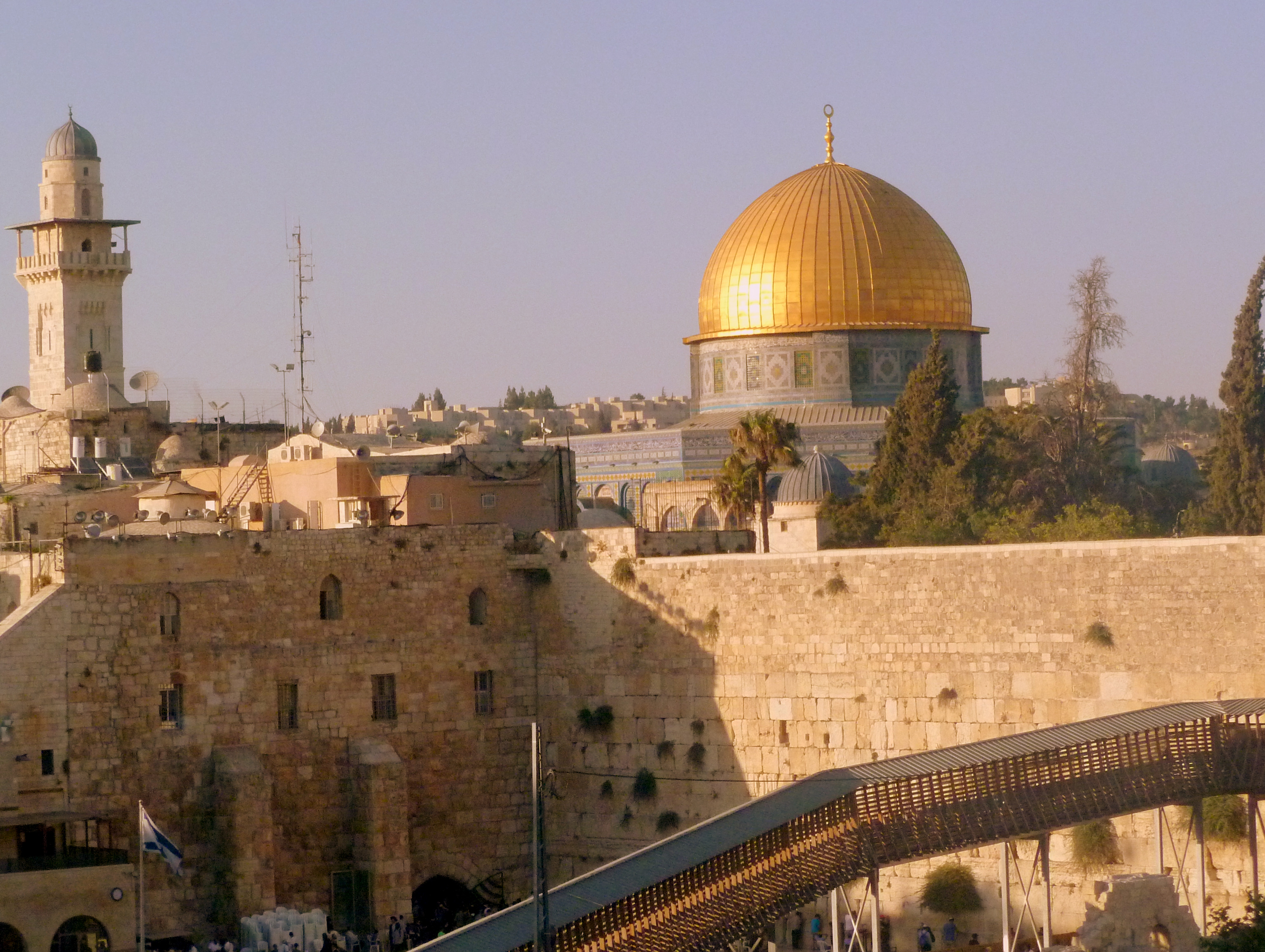 Religion in Palestine